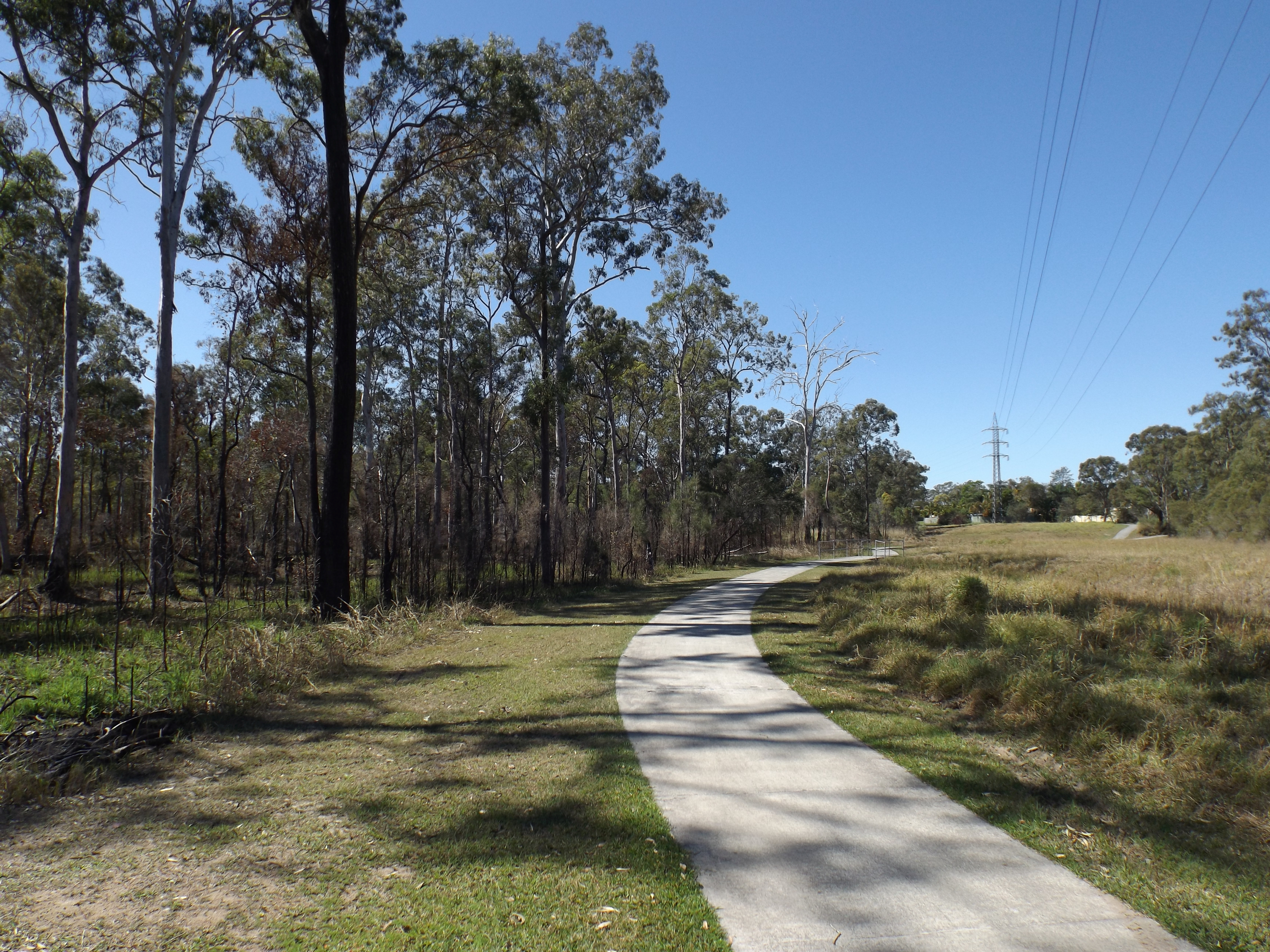 Photo of East West Bikeway at Marsden, Logan City, Queensland, Australia.